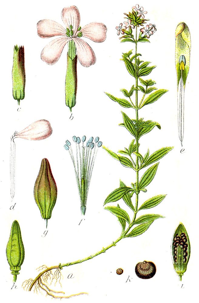 Saponaria officinalis L., syn. Silene saponaria Fr. ex Willk. & Lange Original Description Seifenkraut, Silene saponaria